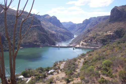 Cahorra bassa dam.